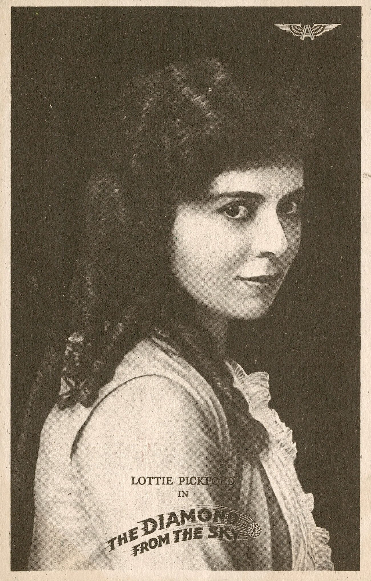 The Diamond from the Sky is a 1915 silent era adventure motion picture serial starring Lottie Pickford, Irving Cummings, and William Russell, and directed by Jacques Jaccard and William Desmond Taylor. This is a movie poster featuring Lottie Pickford.